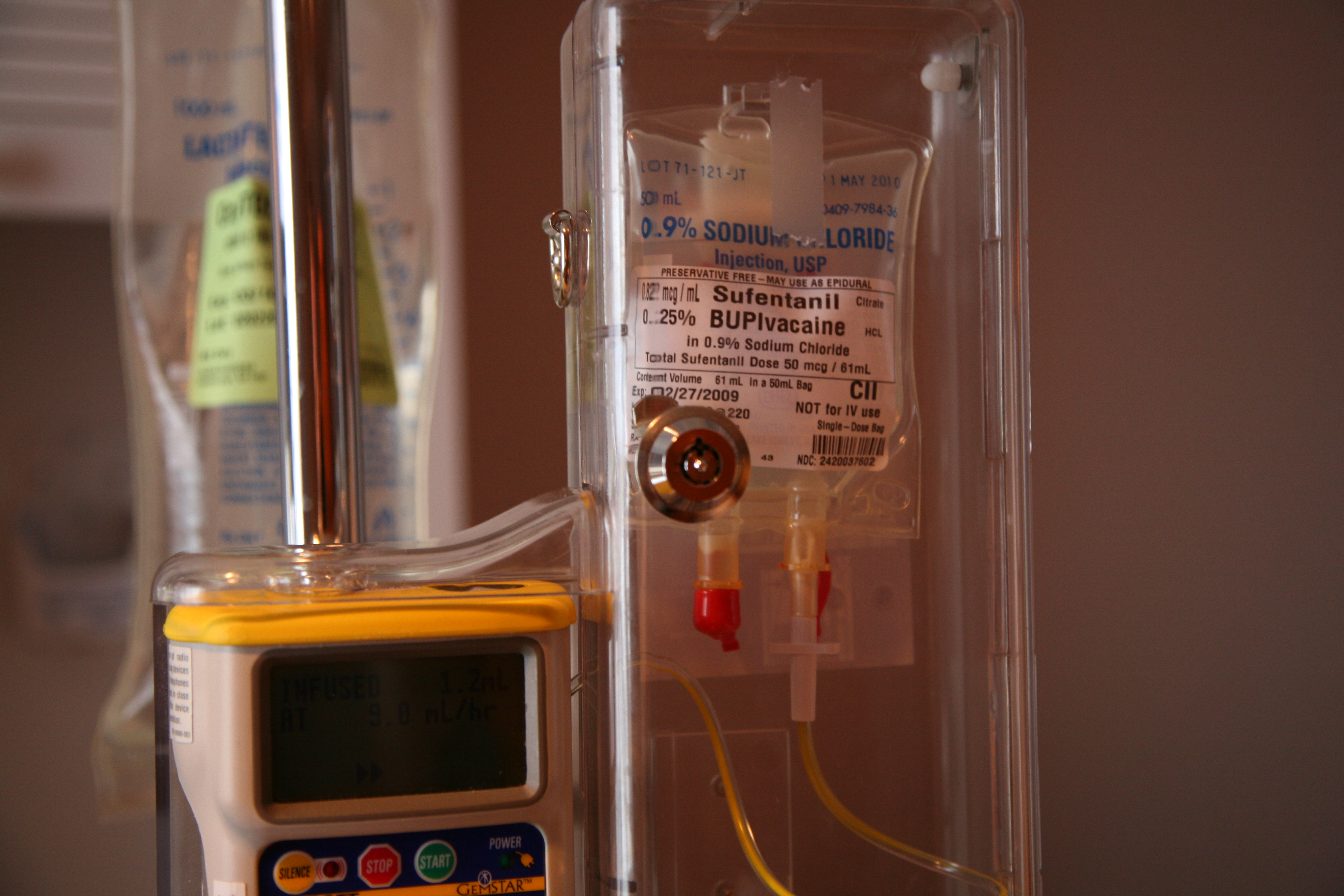 Epidural catheter pump with the opiate locked inside a tamperproof box.